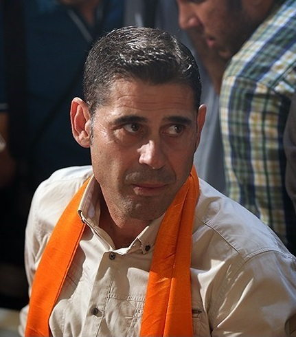 Fernando Hierro, former Spanish footballer arriving in Imam Khomeini Airport for a charity match in Tehran